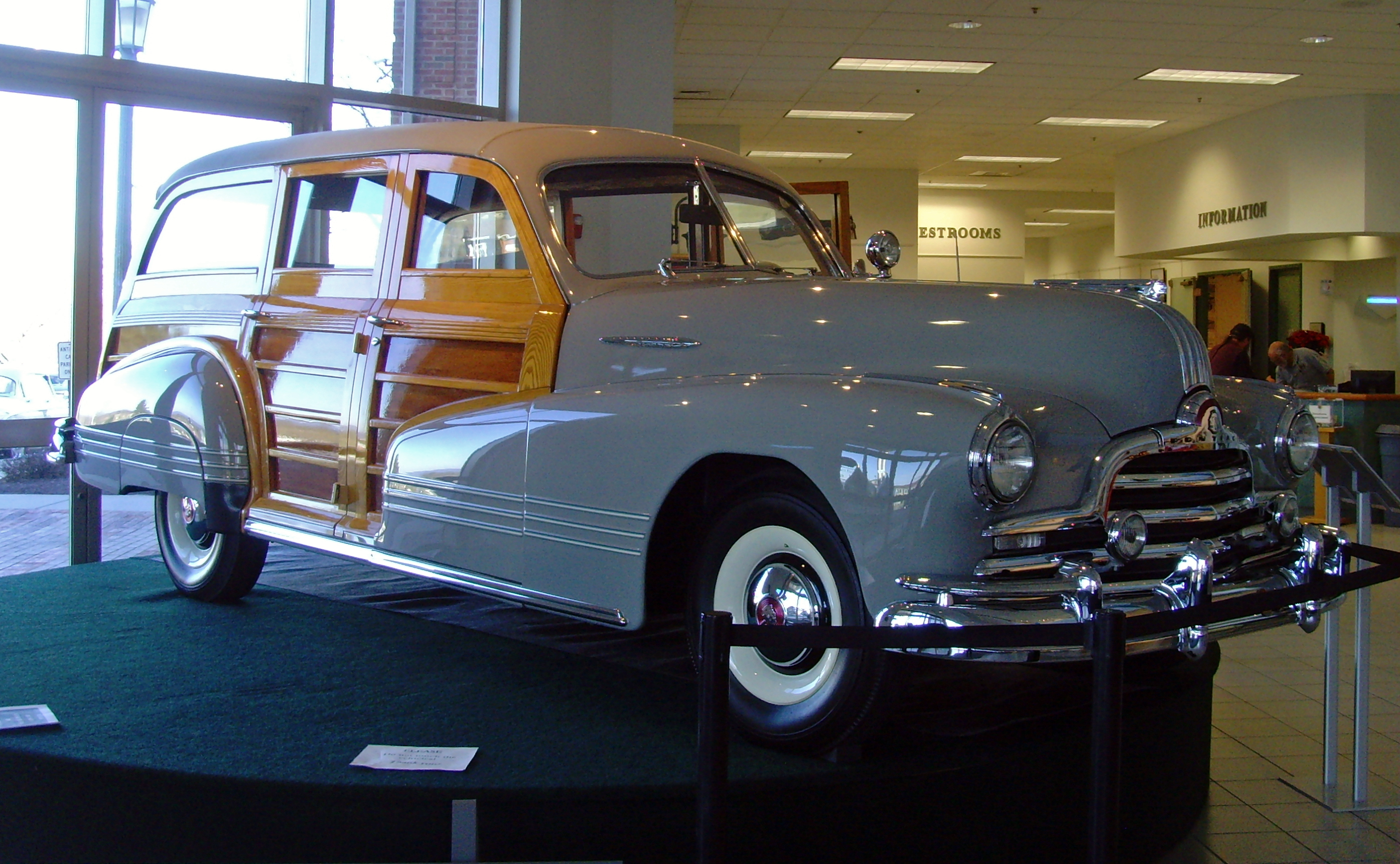 0133 Hershey - Antique Automobile Club of America Museum